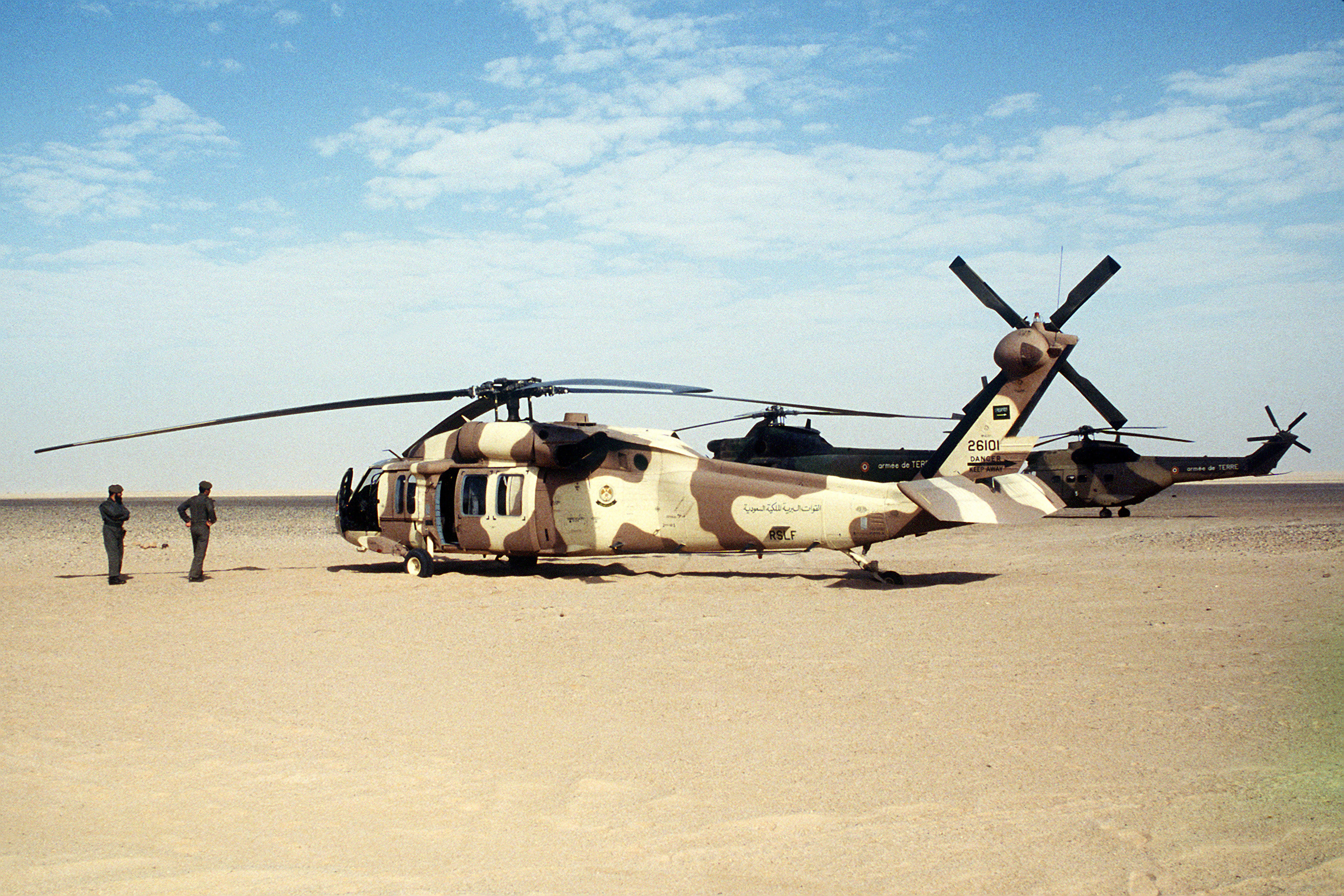 Military personnel stand near a Saudi Arabian land army Sikorsky S-70 helicopter during Operation Desert Shield.